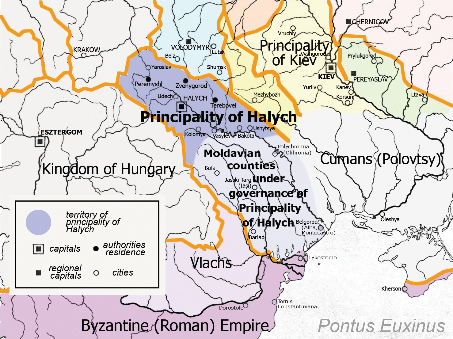 Halych Principality in 12 century